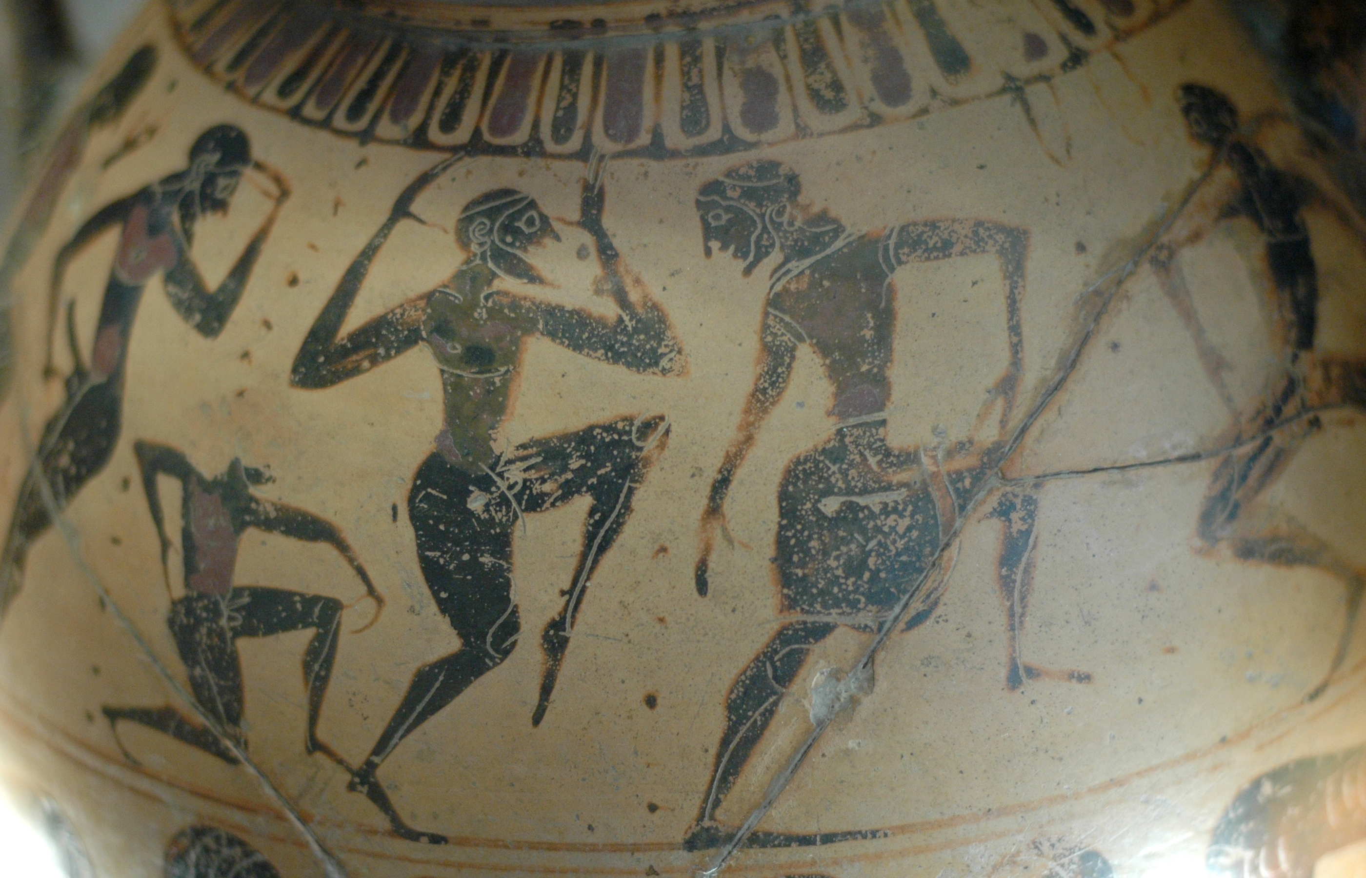 Komos scene. Side B from an Attic black-figure amphora, ca. 550-540 BC.